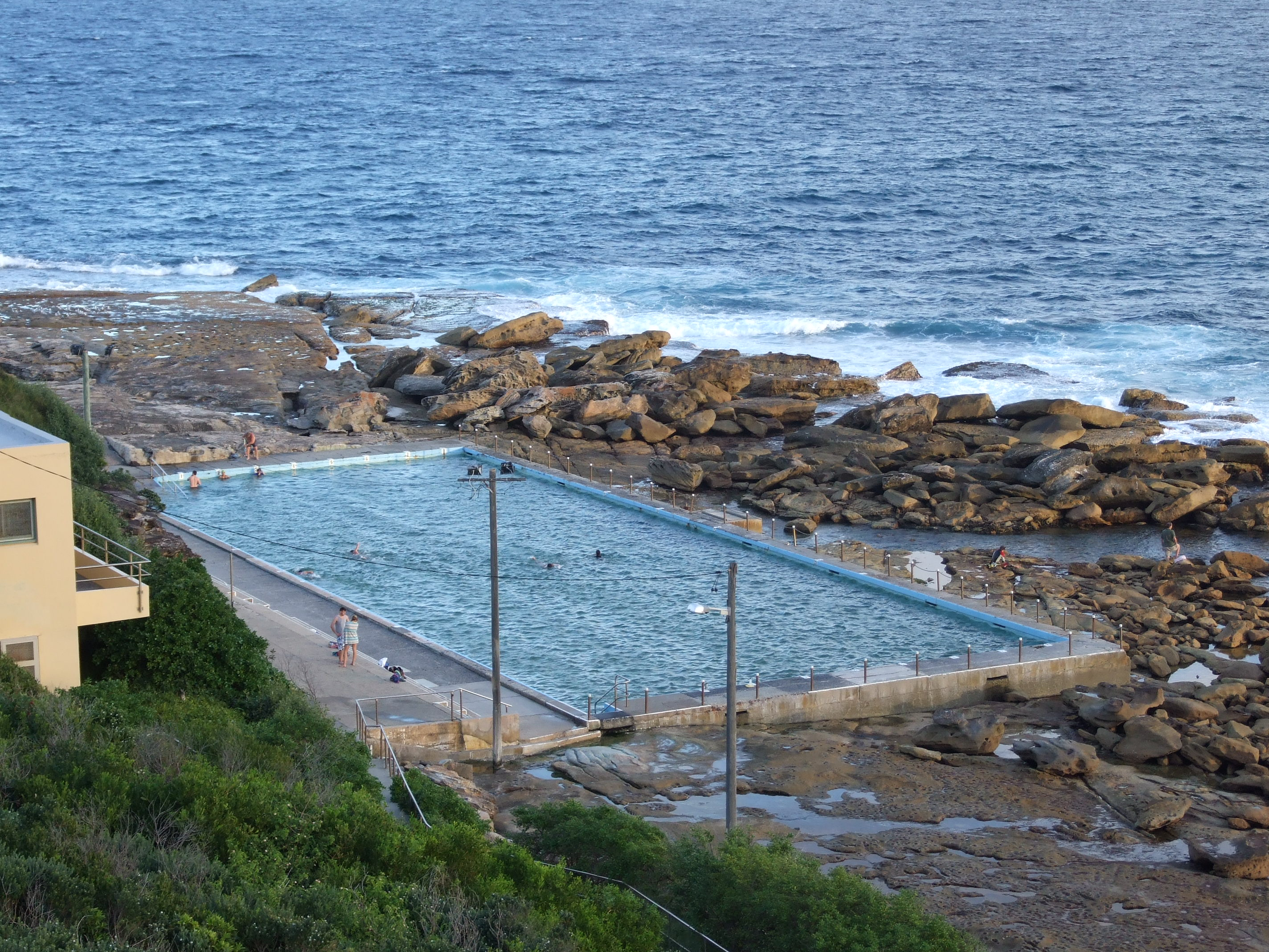 Freshwater Swimming Pool